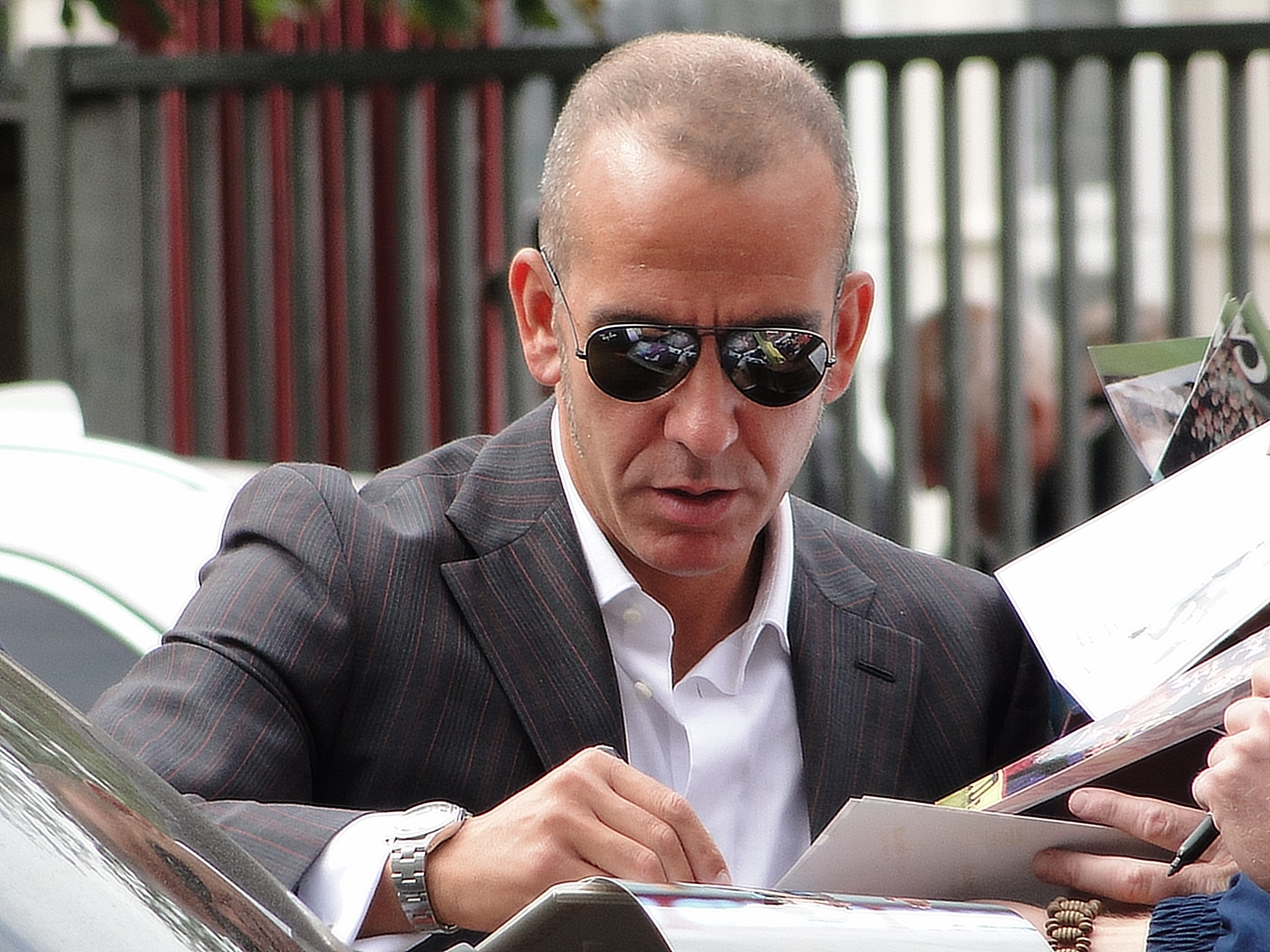 Paolo Di Canio at West Ham's Upton Park, September 2010